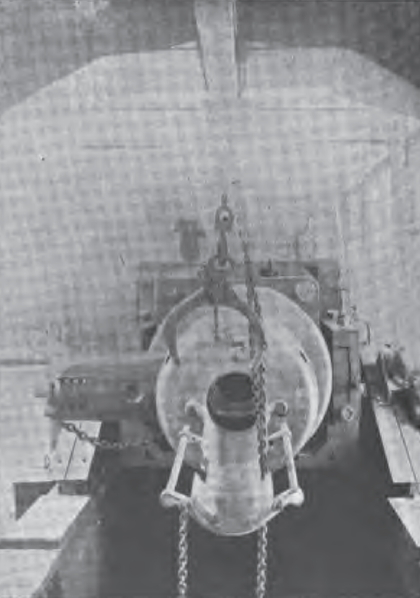 The breech, cradle, loading tray and shell hoist of the 24 cm Theodor Otto railroad gun